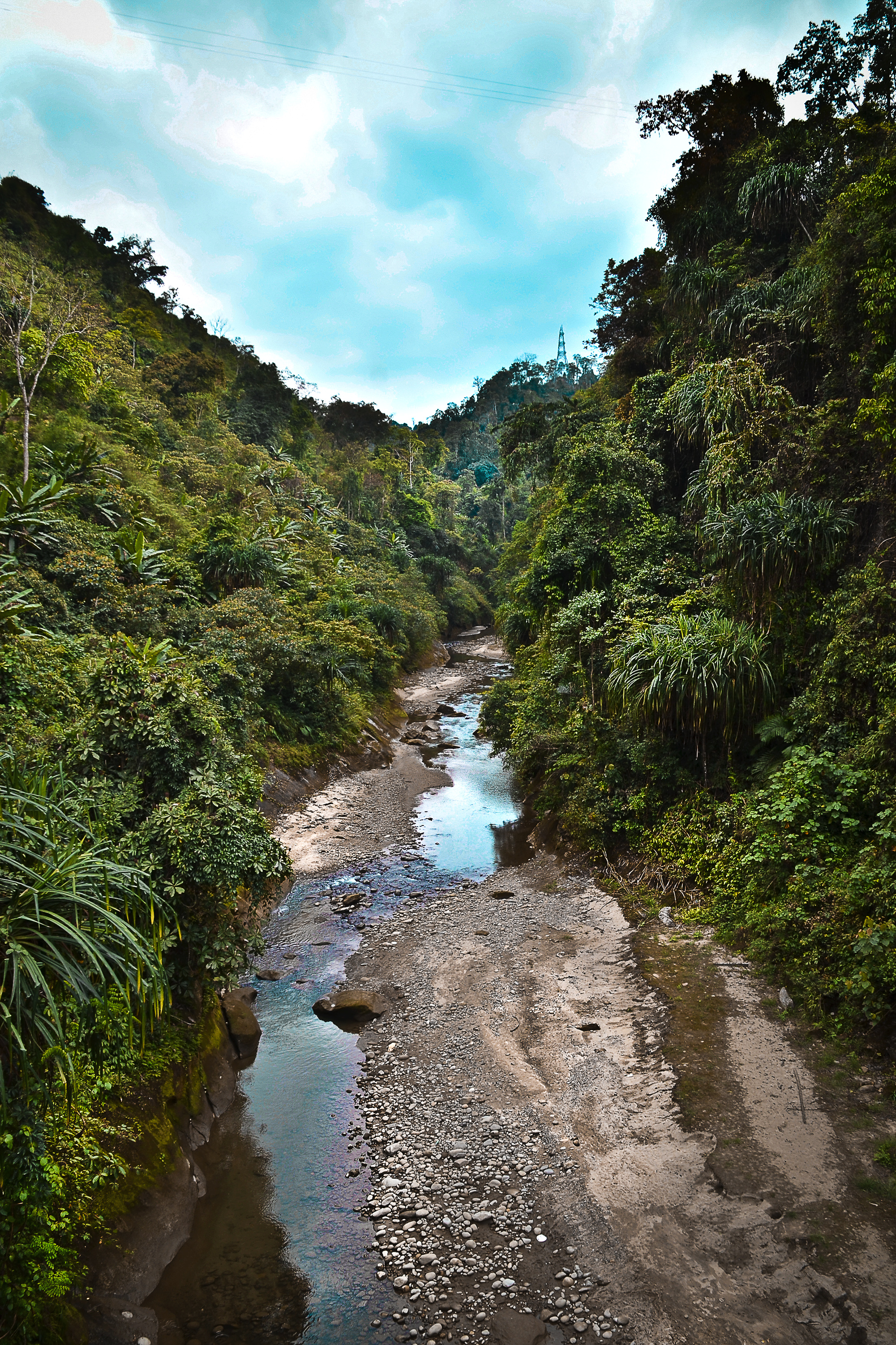 THE SCENIC BEUTY OF BHALUKPONG IN WEST KAMENG DISTRICT OF ARUNACHAL PRADESH, INDIA